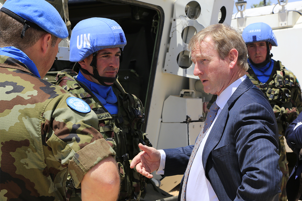 Irish Defence Forces Lebanon 16 06 2014 TAOISEACH Enda Kenny meets some of the Irish Personnel who escorted him during his visit. Commandant Colin Miller ( back to camera), Trooper Shane Callaghan (foreground) and Trooper Michael Barry (background)